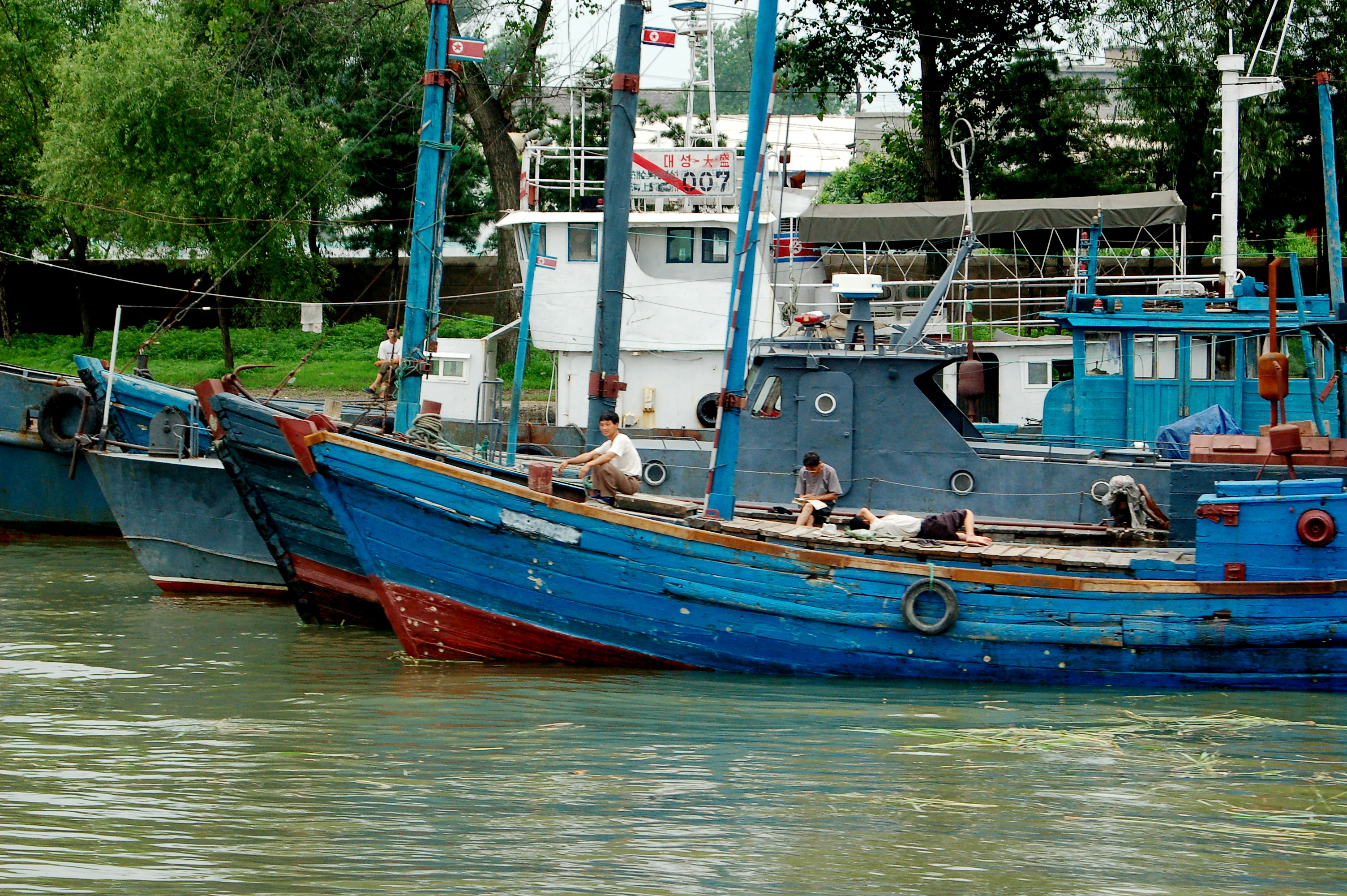 North Koreans in Sinŭiju relaxing in a boat yard. Taken from Dandong, China